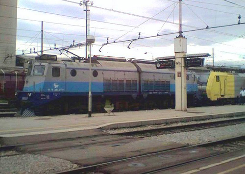 1061 series locomotive in Rijeka, Croatia